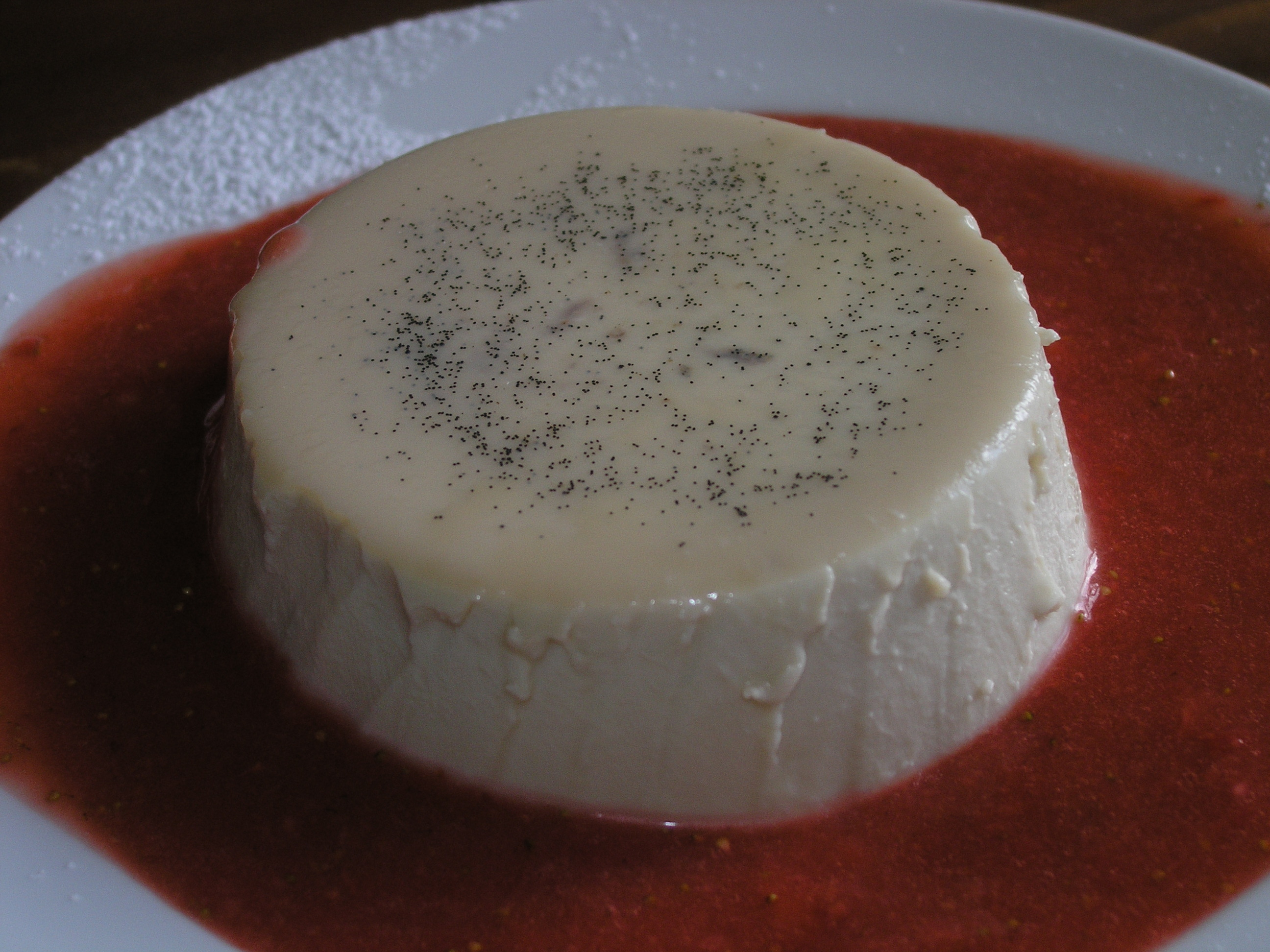 Panna Cotta with Strawberrysauce